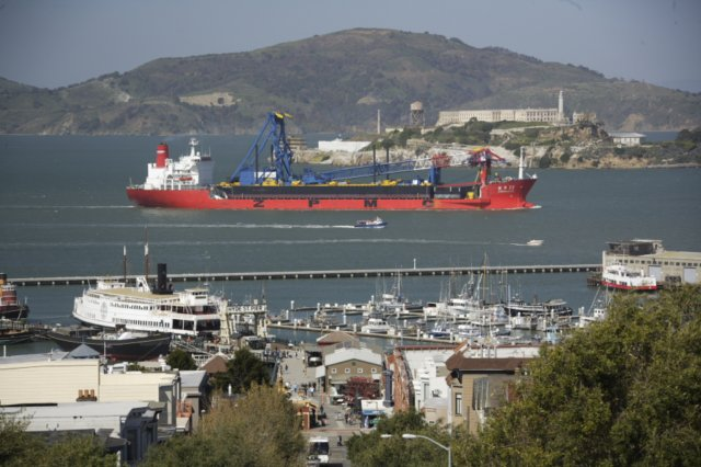 The completed Left Coast Lifter is being ferried on the semi-submersible heavy lift Zhenhua 22. Captured while passing Alcatraz Island.